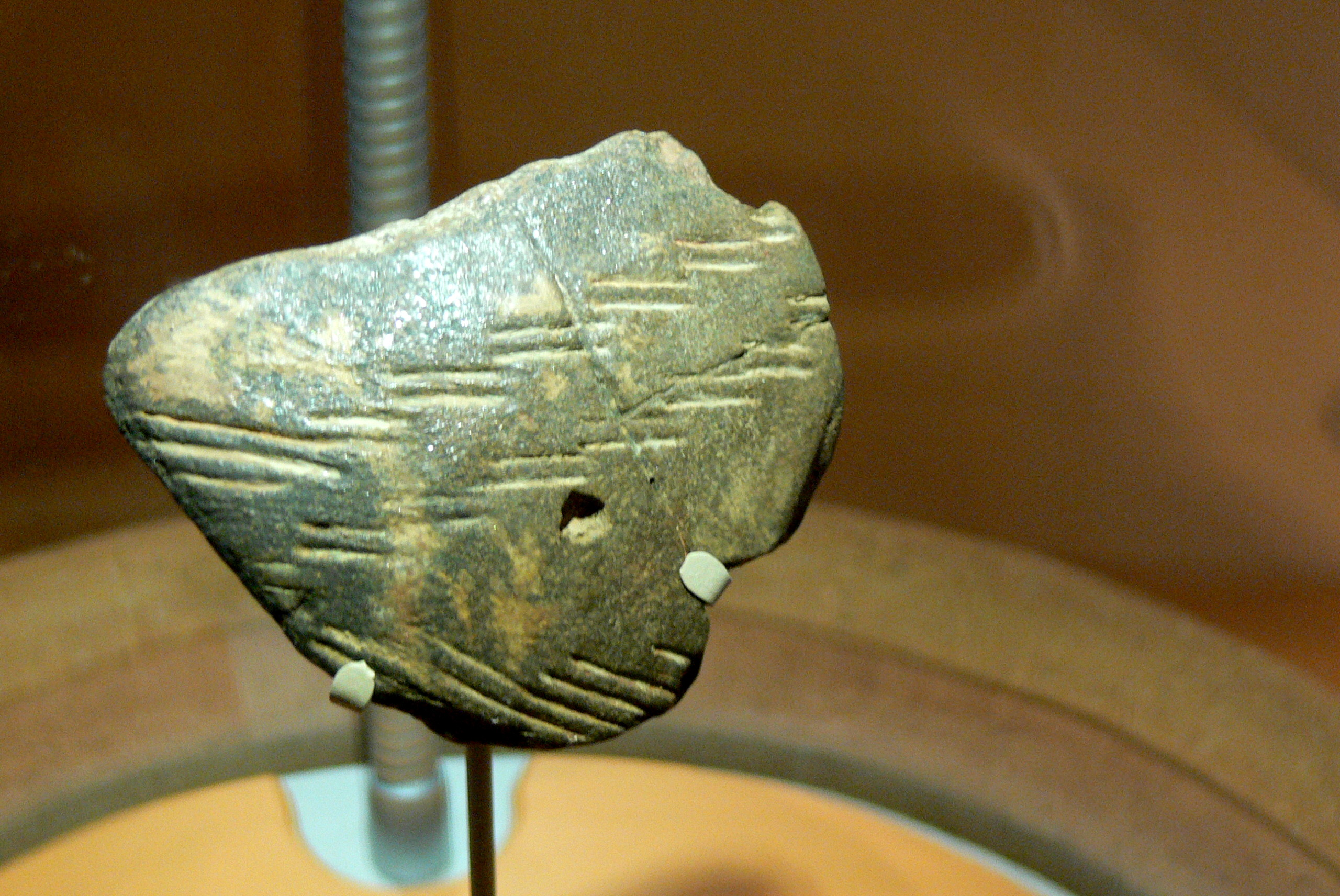 Oberhausmuseum ( Passau ). Fragment of neolithic pottery - Oberlauterbach group ( 5.000 BC ). It´s the oldest proof for settlements in Passau.